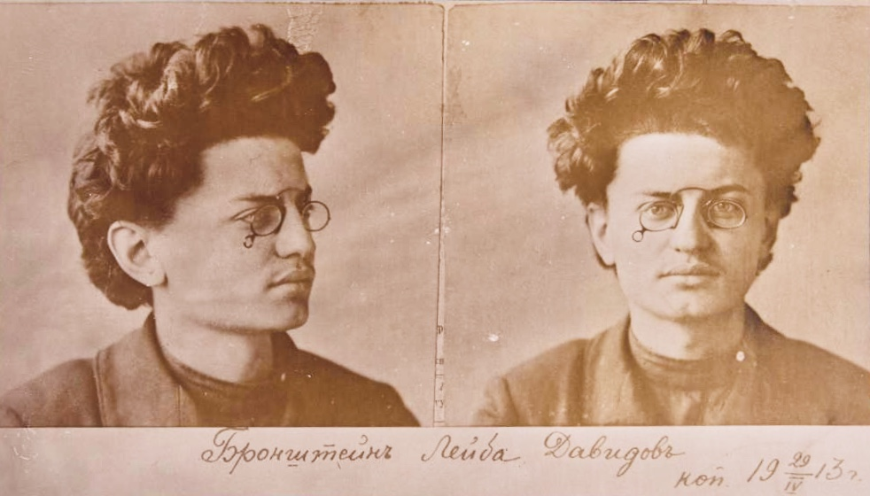 Mugshot of Trotsky after Soviet members were arrested during a meeting in Free Economic Society building